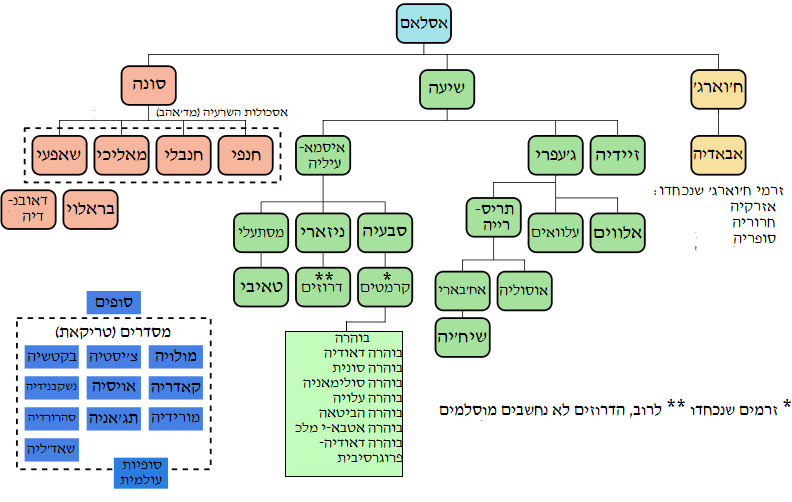 A diagram of the branches of Islam. translated to Hebrew from Angelpeream work.